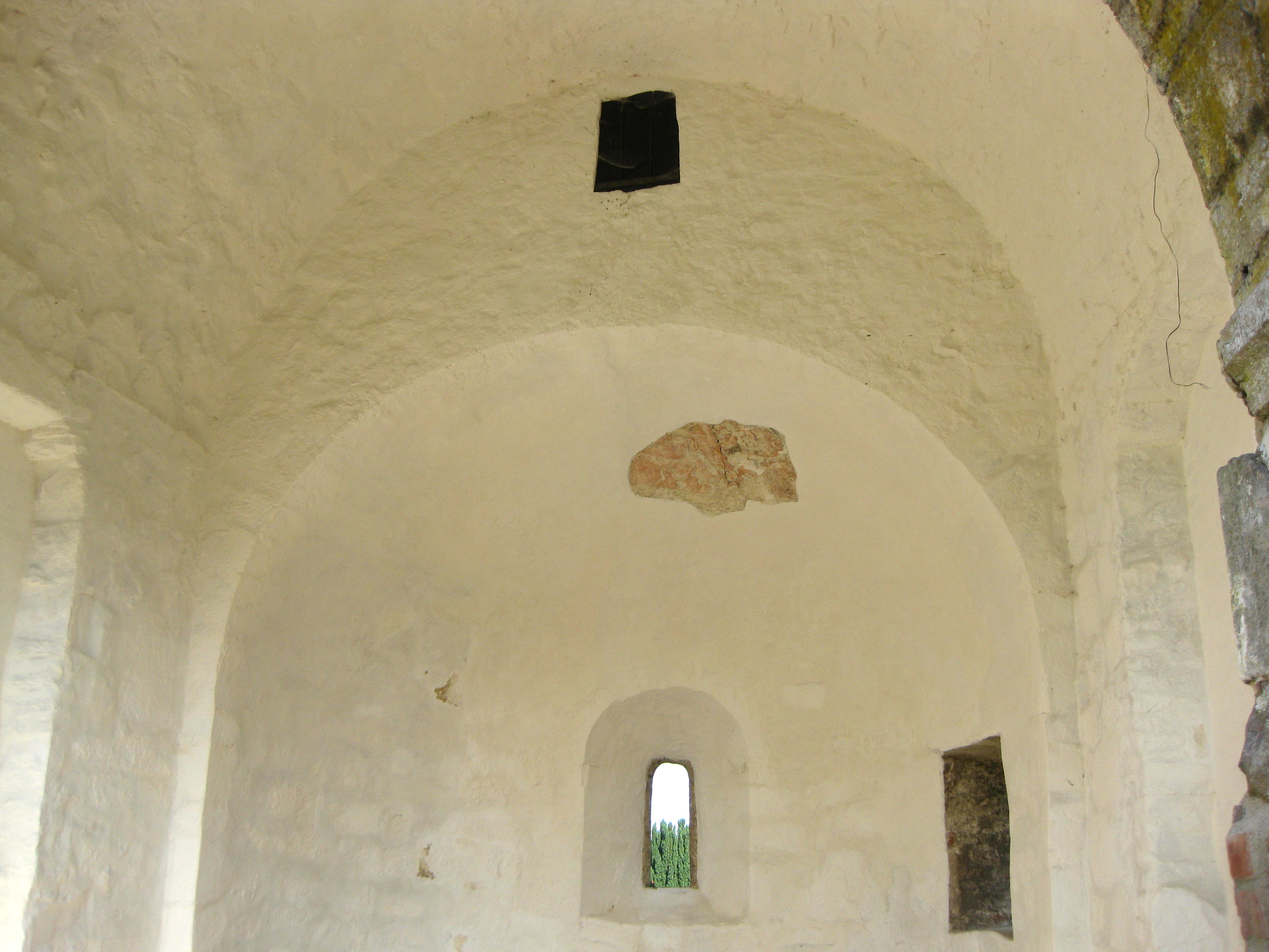 Inside of the old church ruin in front of the church "Østermarie Kirke" located in the small town "Østermarie". The town lies on the island Bornholm in east Denmark.